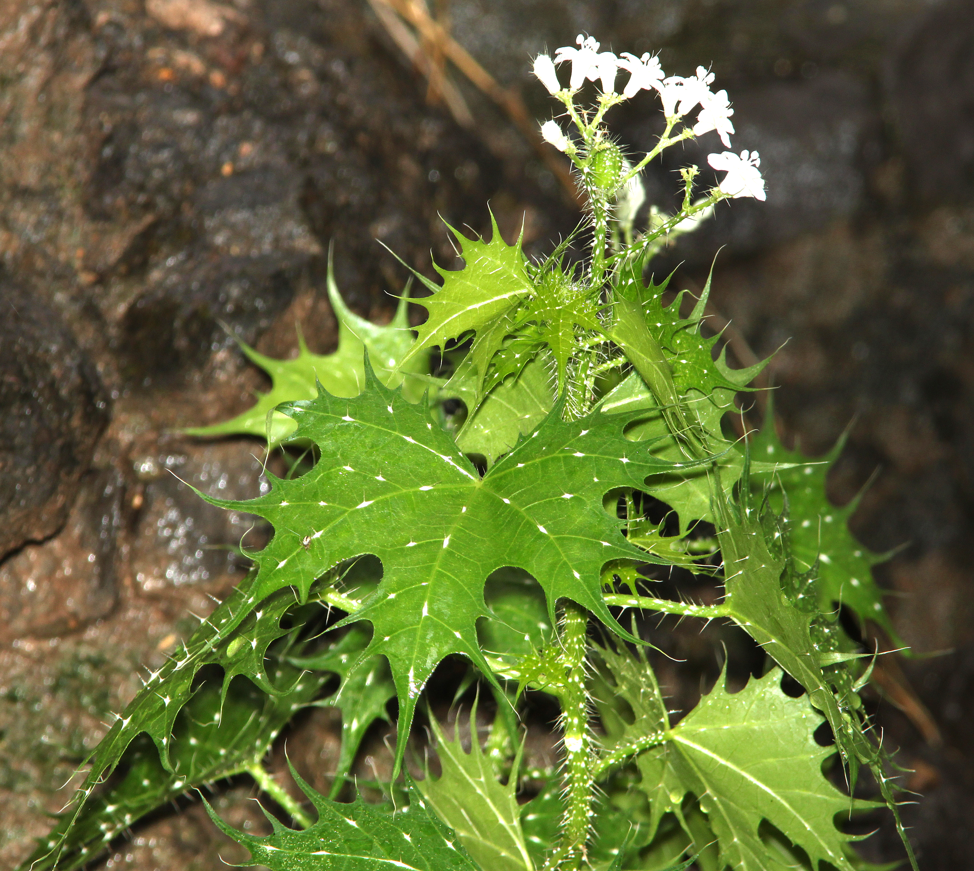 ARIZONA - FLOWERS